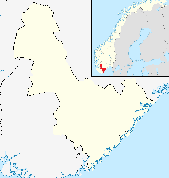 Map of Aust-Agder, Norway, for use in locator map templates.